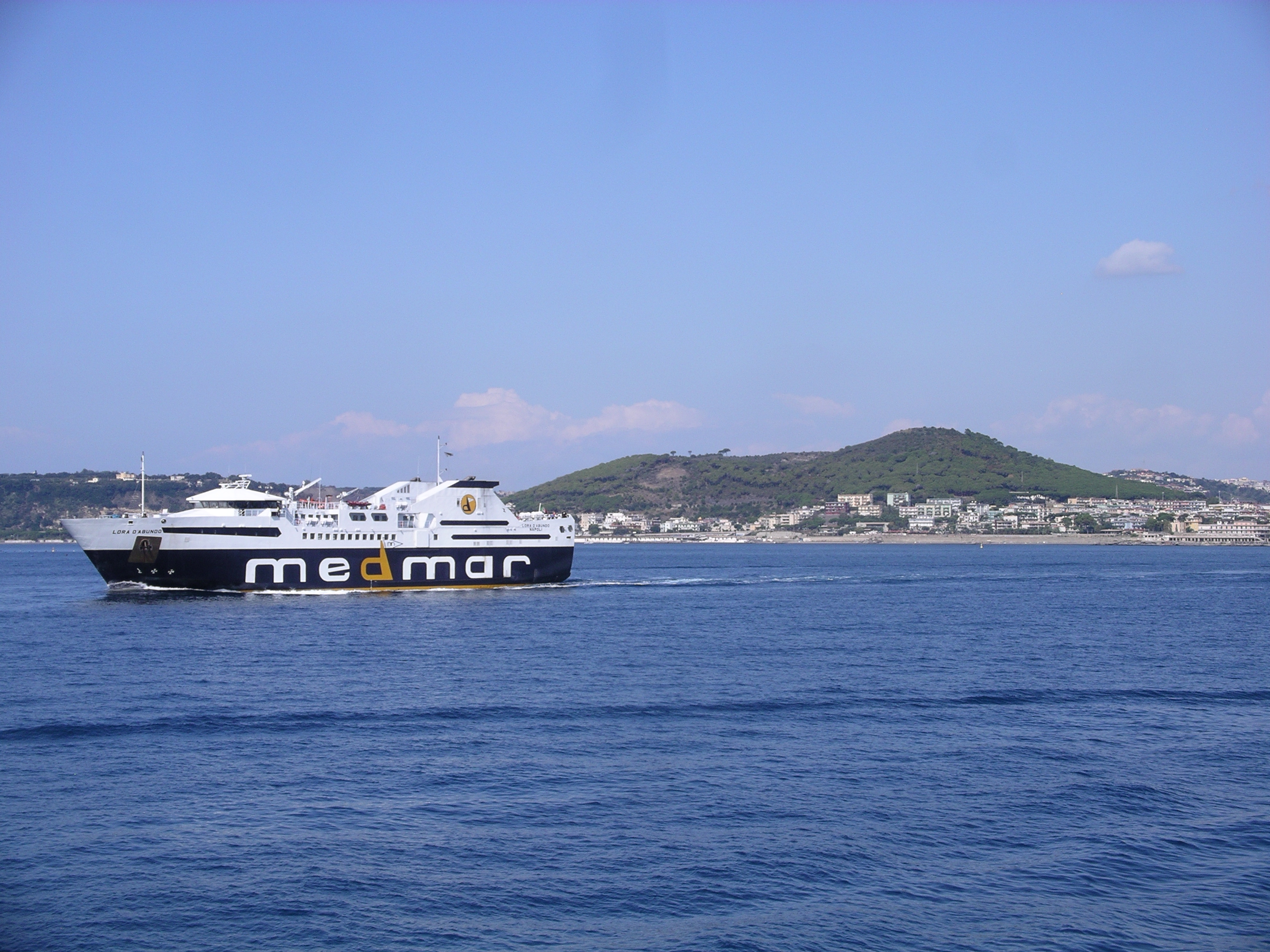 The cone of Monte Nuovo near Pozzuoli, created in 1538.